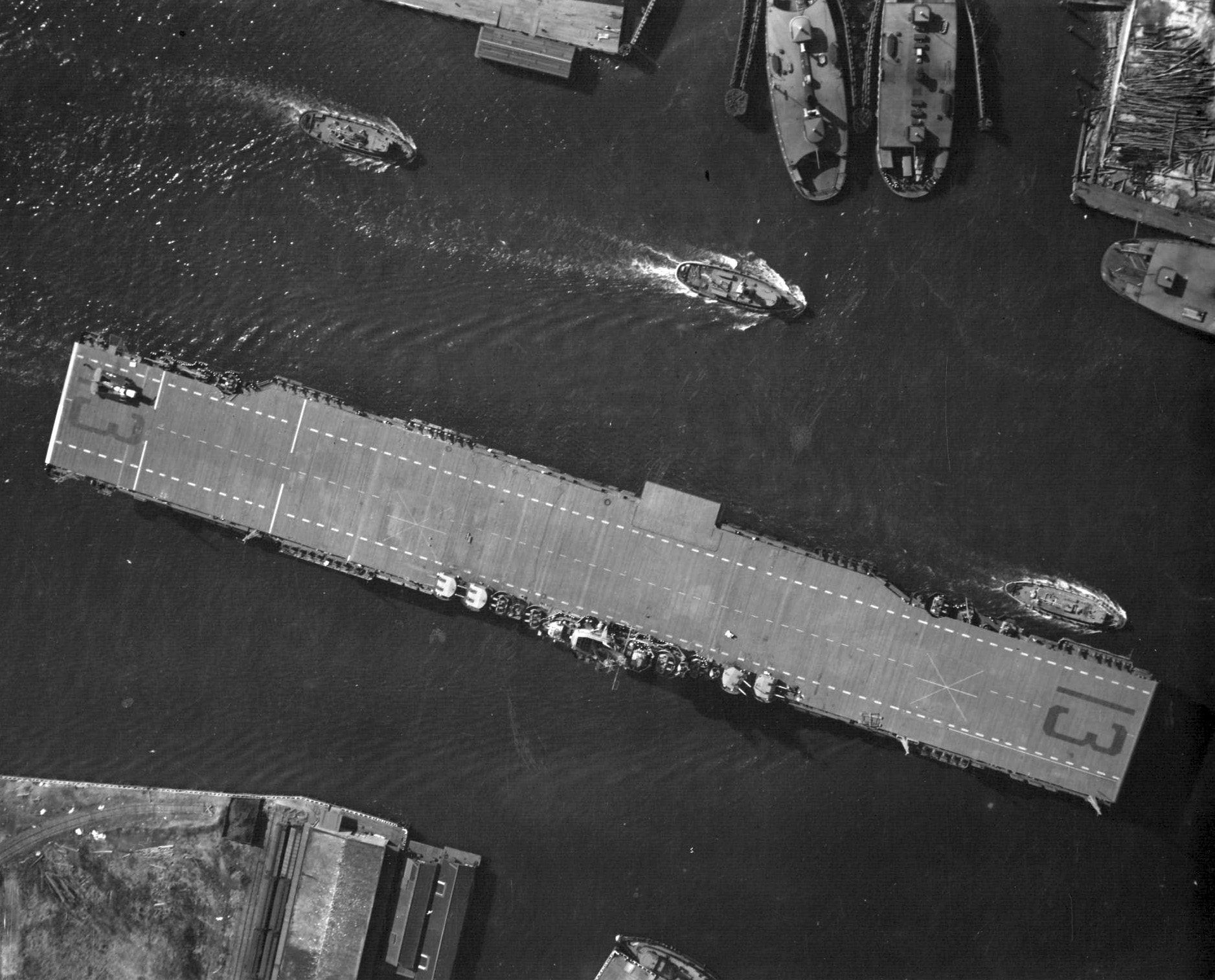 Overhead view of the U.S. Navy aircraft carrier USS Franklin (CV-13) underway at the Norfolk Navy Yard on 21 February 1944. Franklin had been commissioned on 31 January 1944.